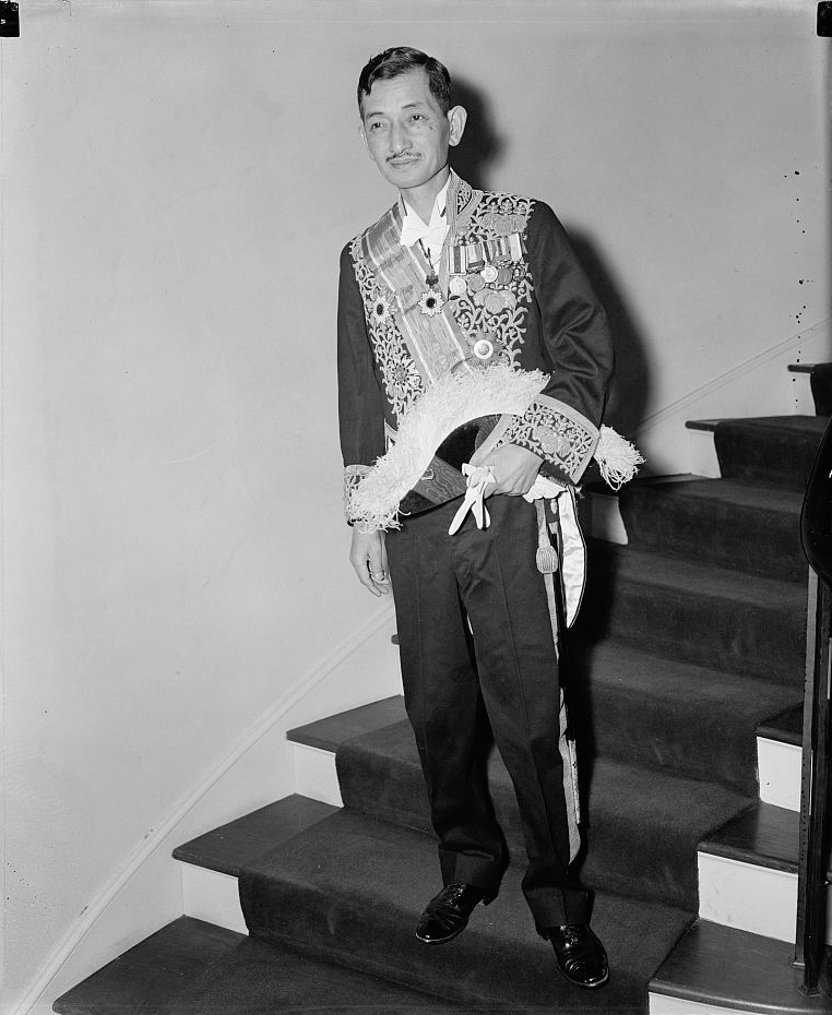 Diplomatic reception at White House. Washington, D.C., Dec. 16th. Hiroshi Saitō (斎藤博), Ambassador from Japan, photographed as he left the embassy for the White House Reception for the Diplomatic Corp, 12/16/37. (original text)